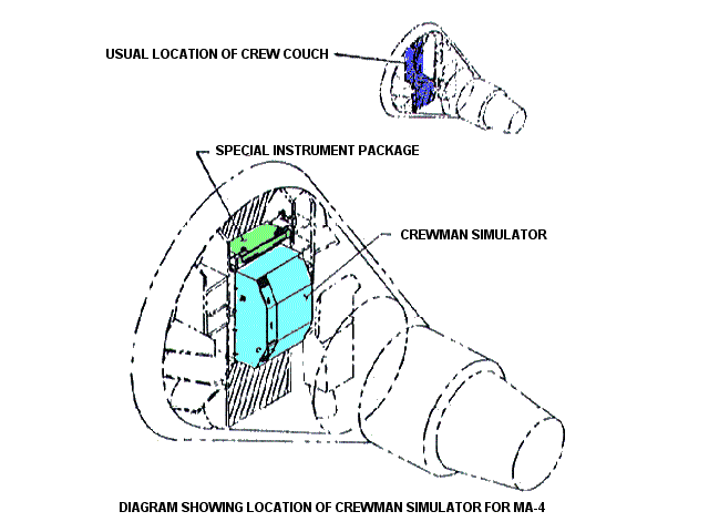 Sketch showing location of crewman simulator for Mercury-Atlas 4 flight. Modified by Reubenbarton in Paint Shop Pro for clarification.